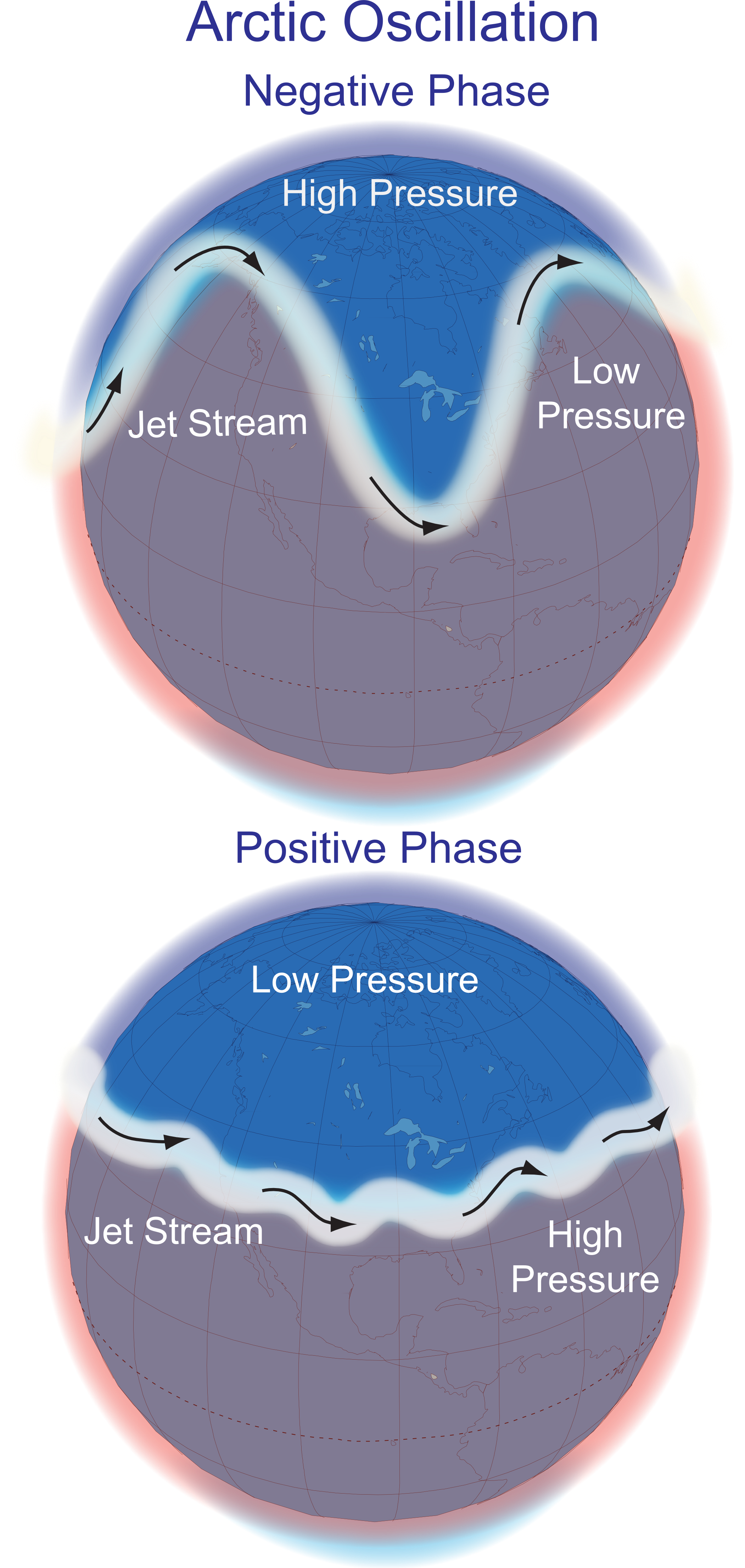 Arctic Oscillation